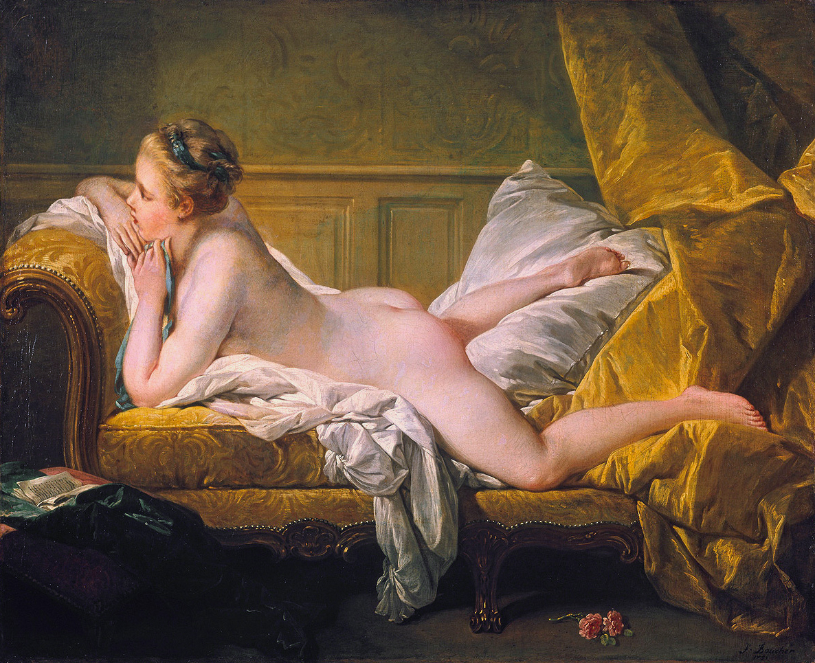 Probably a portrait of Marie-Louise O'Murphy (21 October 1737 – 11 December 1814), mistress to Louis XV of France.